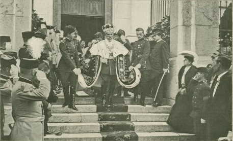 Coronation of king Peter I of Serbia (1904).